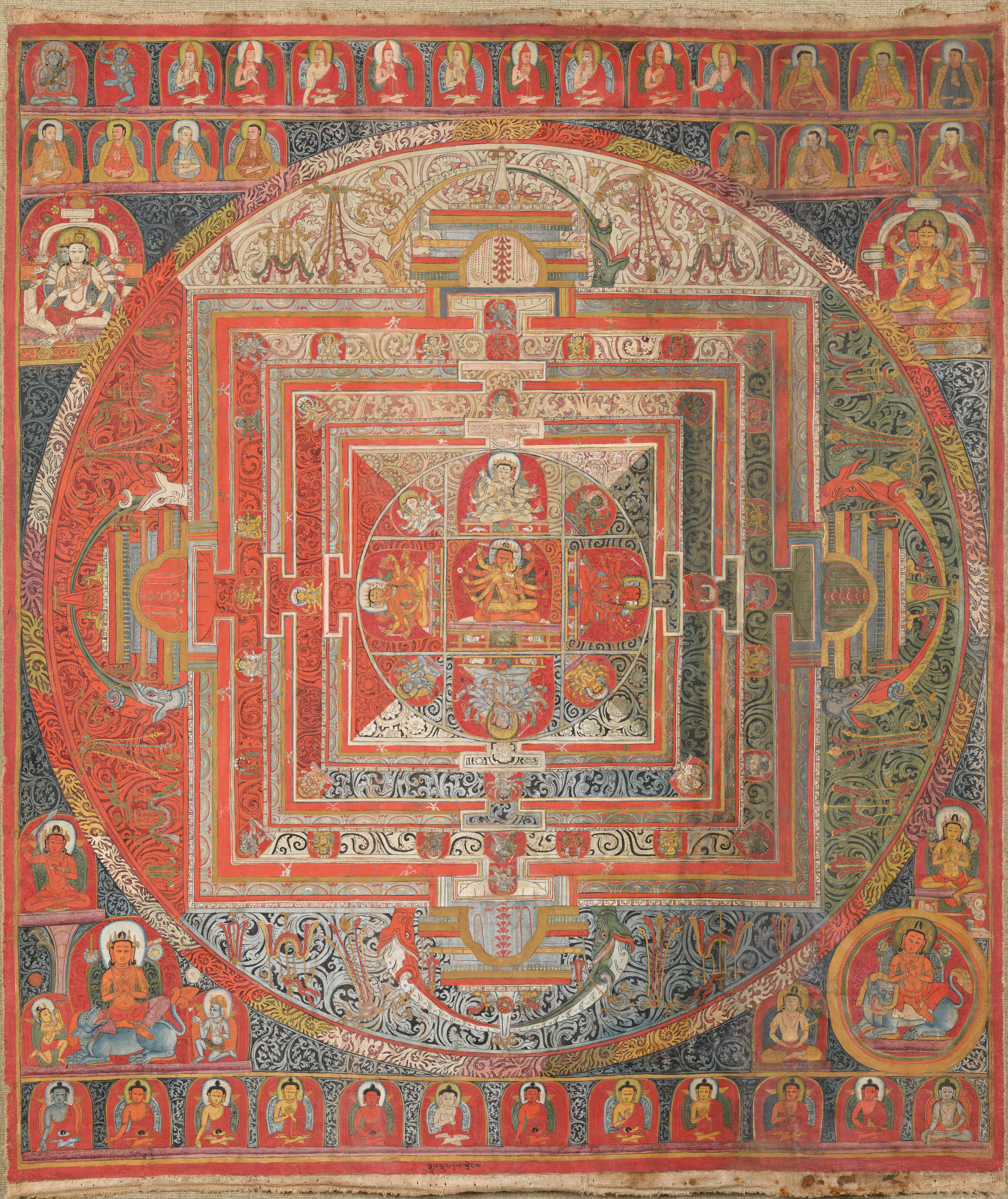 Manjuvajramandala with 43 deities, from Tibet. Tempera on cotton. Measures 71 by 85 centimetres (28 in × 33 in). Held at the Museo d'Arte Orientale.